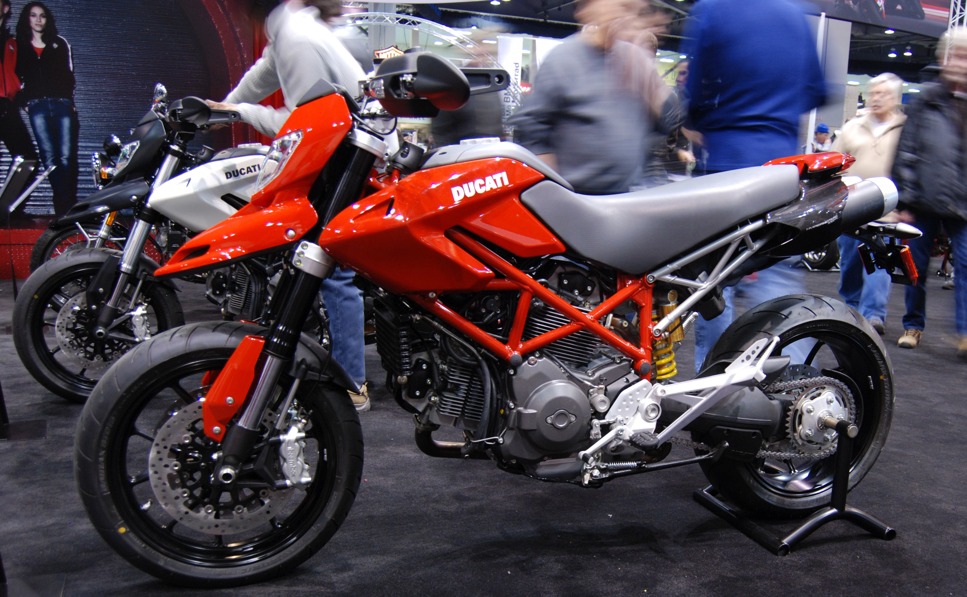 2010 Ducati Hypermotard 796 at the 2009 Seattle International Motorcycle Show